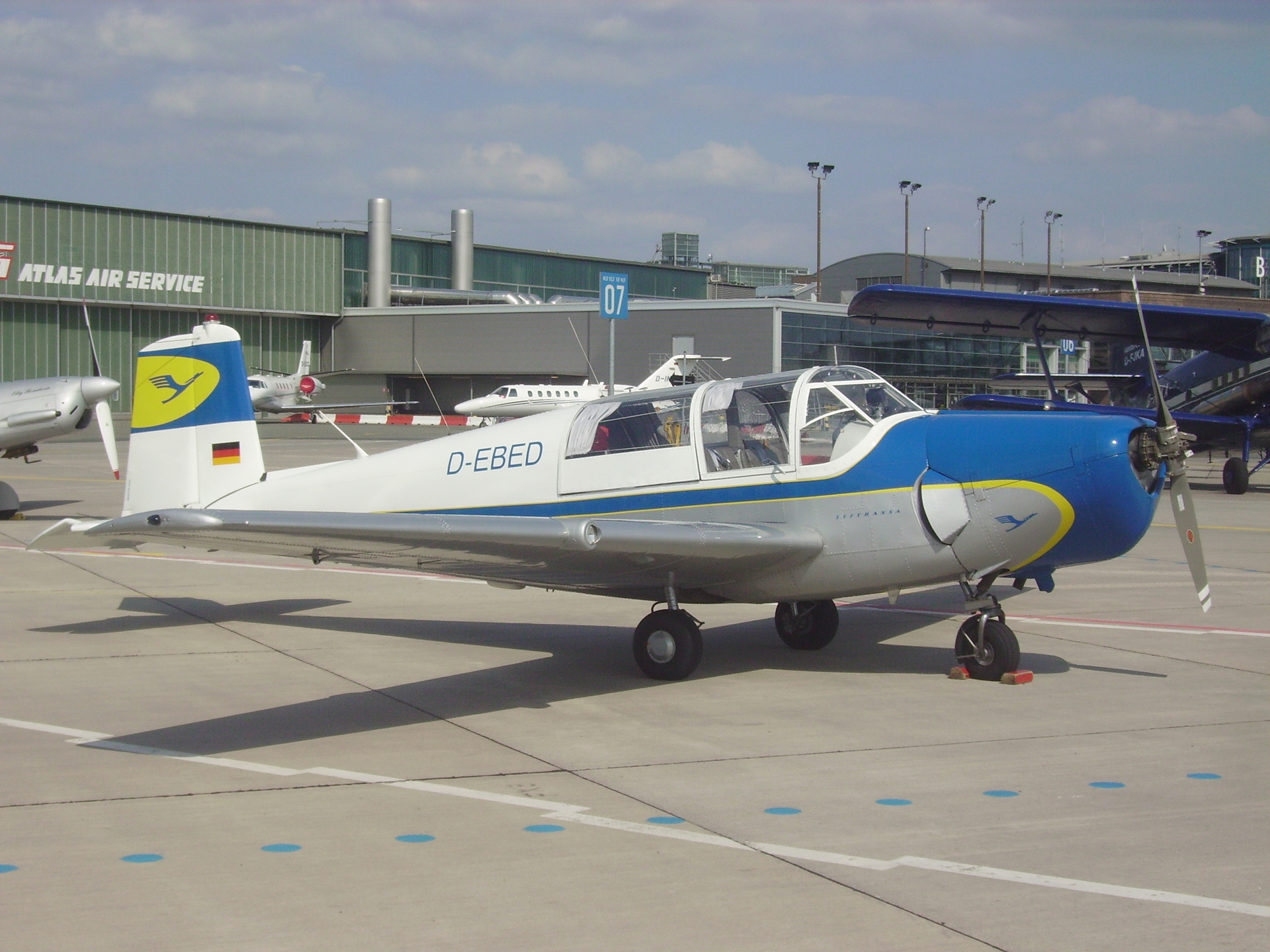 A Saab 91B Safir, a former training plane of the Lufthansa